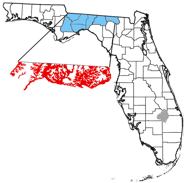 Depiction of the Torreya Formation of northern Florida.